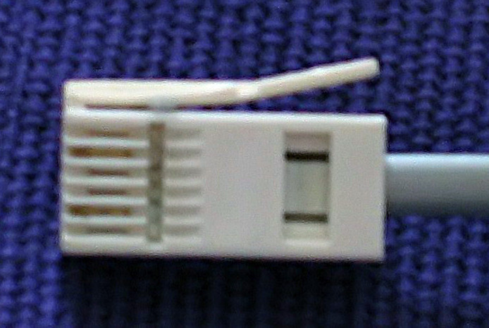 British phone plug taken by C Ford, 29 June 2004 -this is a lousy image! Please replace